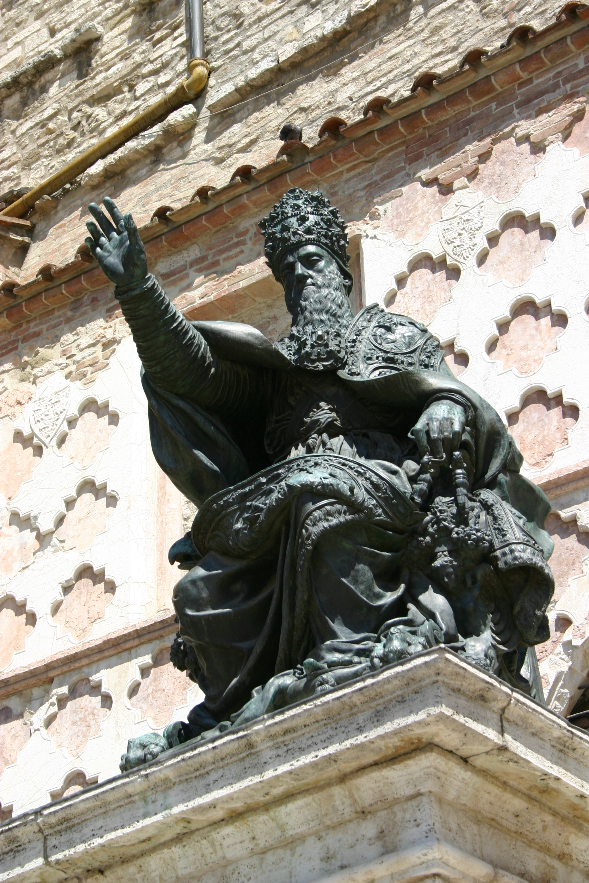 Perugia, Vincenzo Danti, Bronze statue of pope Julius III (1555). Picture by Giovanni Dall'Orto, August 7, 2006.